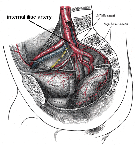 Application of Image:Gray539.png Internal iliac artery